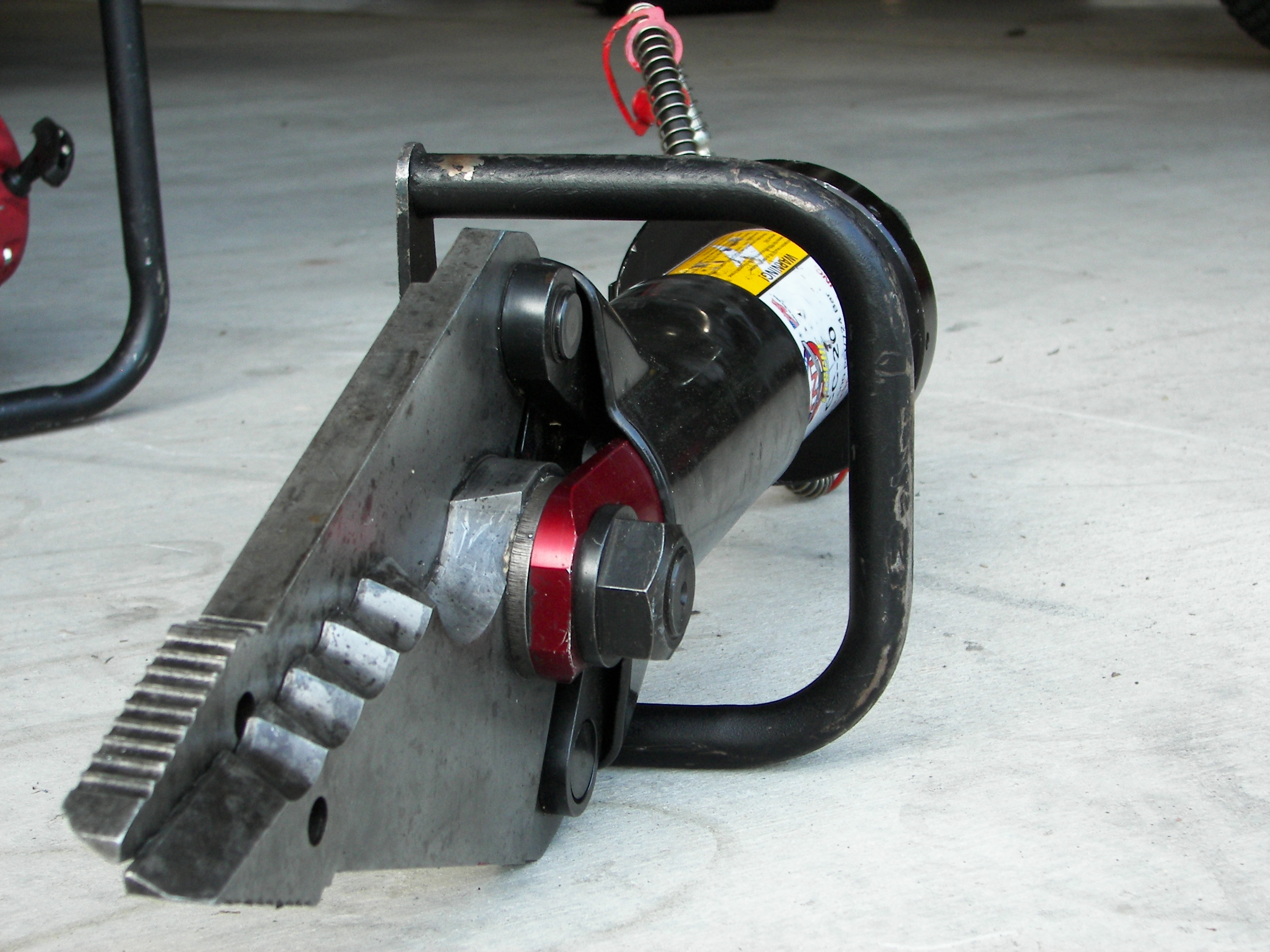 Three-quarter angle of a combi-tool with specific detail paid to the blades.